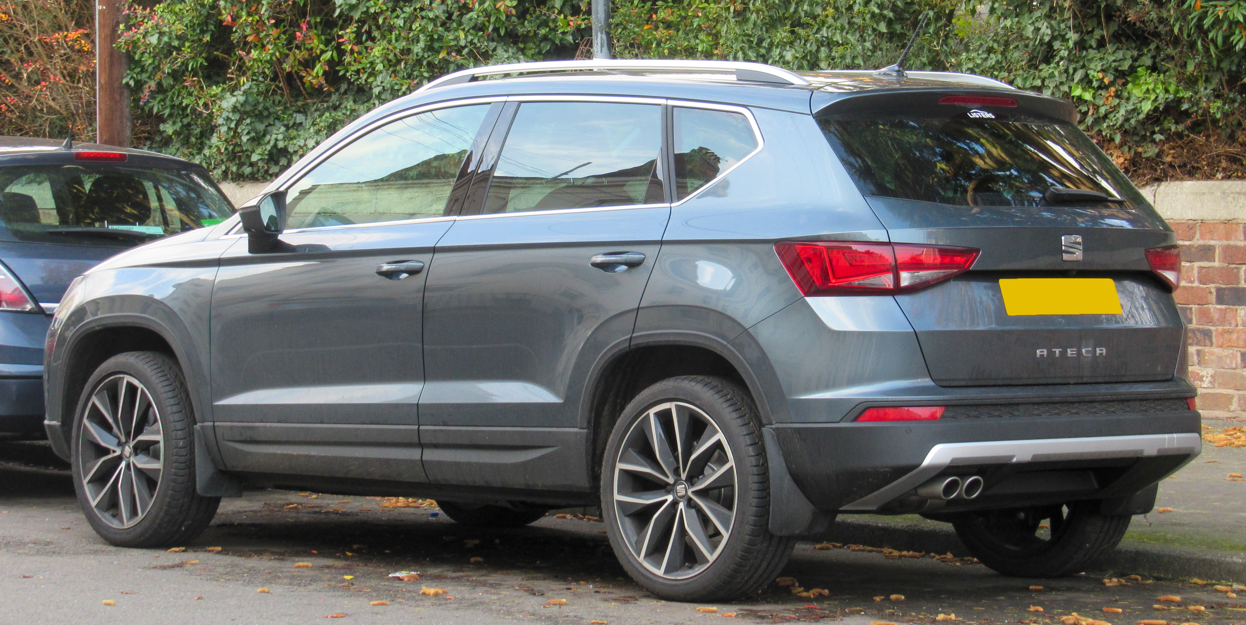 2017 SEAT Ateca Xcellence 1.4 Rear Taken in Leamington Spa